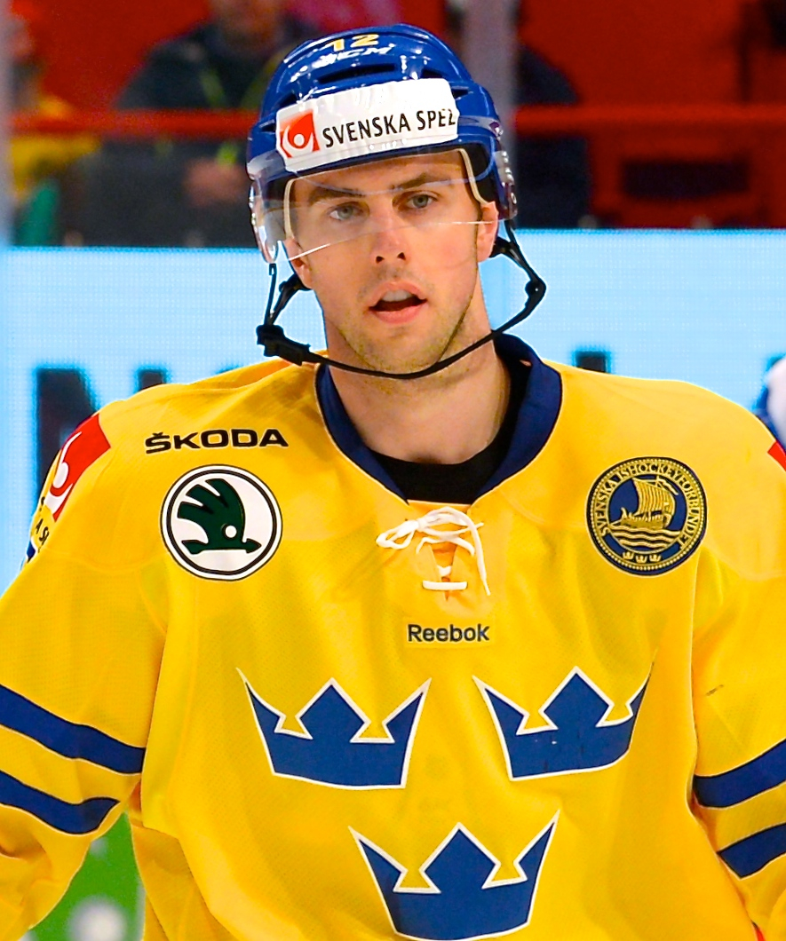 Joakim Lindström during Oddset Hockey Games against Russia (2-0) at the Ericsson Globe in Stockholm on May 4th, 2014.